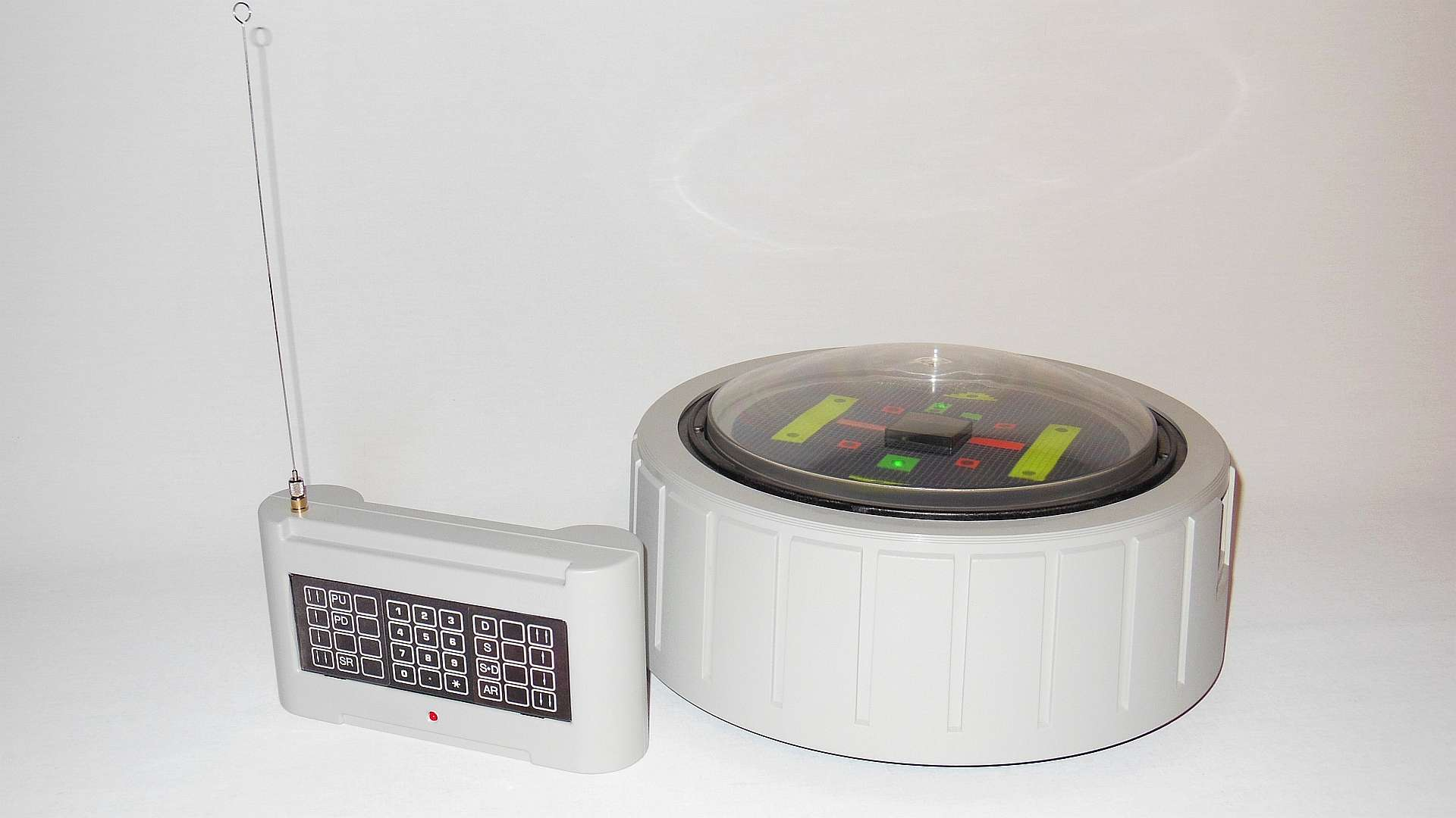 The Base setup of the Modulus robot. From the collection of Jehudah Design.